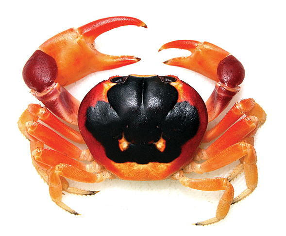 Gecarcinus lateralis (Freminville, 1835) male, dorsal view, color in life, in hard-shell condition. Atlantic coast, Costa Rica, Puerto Viejo. Carapace width 39 mm.